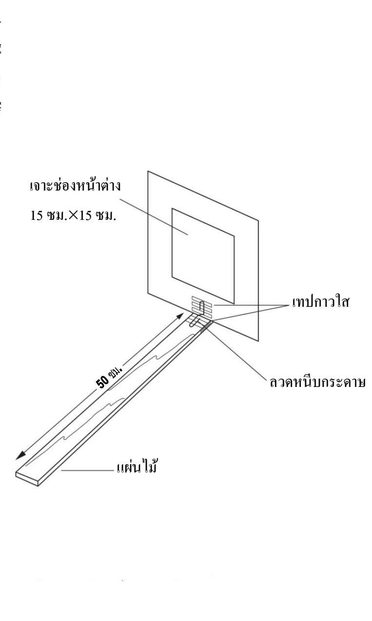 อุปกรณ์นับดาว